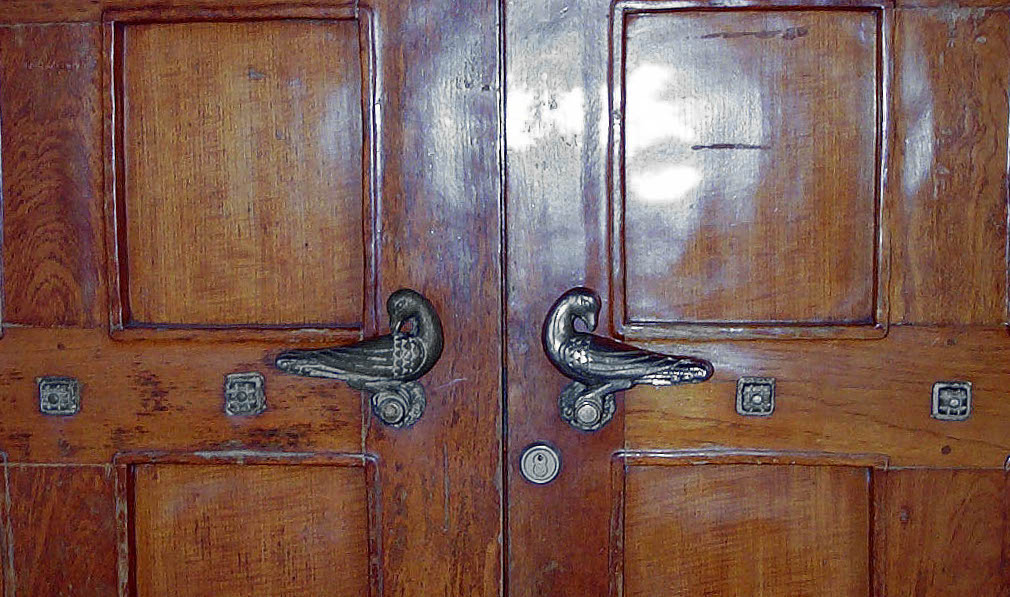 Monel Door Handles at the Choir Hall at The Bryn Athyn Cathedral, Bryn Athyn, Pennsylvainia, USA Digital Photograph taken April 2001 by a Kodak DX 3900 Digital CameraFile size 175 KB, JPG image. Photographer, Brian Zook